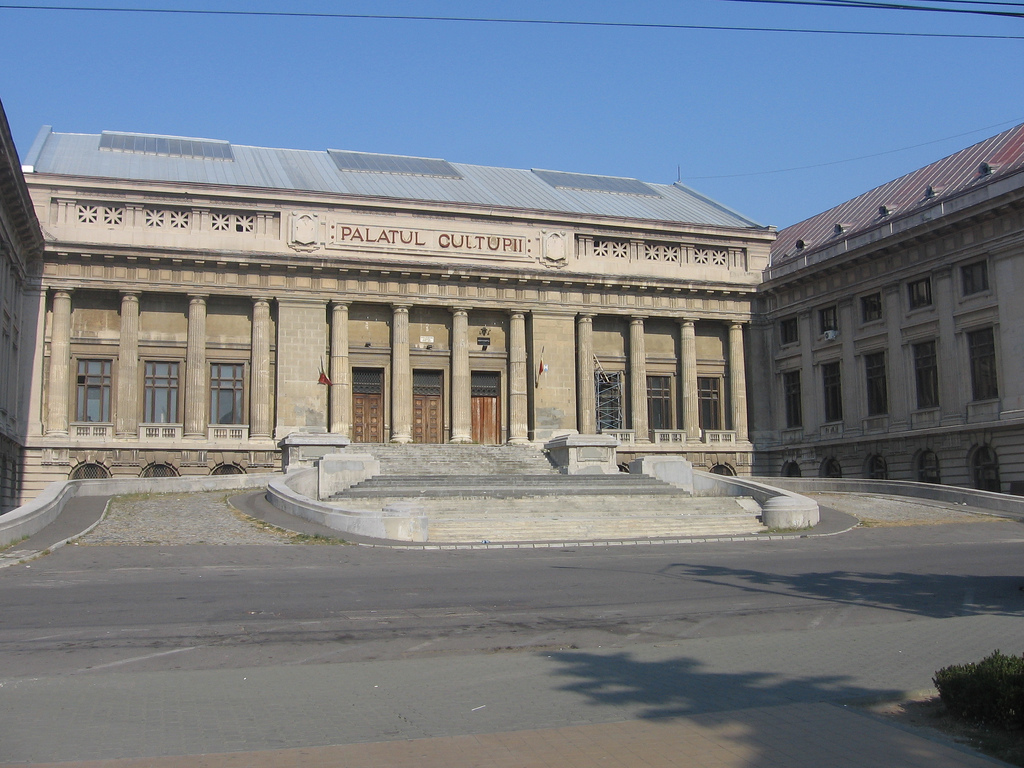 The Palace of Culture, Ploieşti, Romania